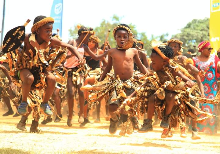 This is an image with the theme "Africa on the Move or Transport" from: Zambia